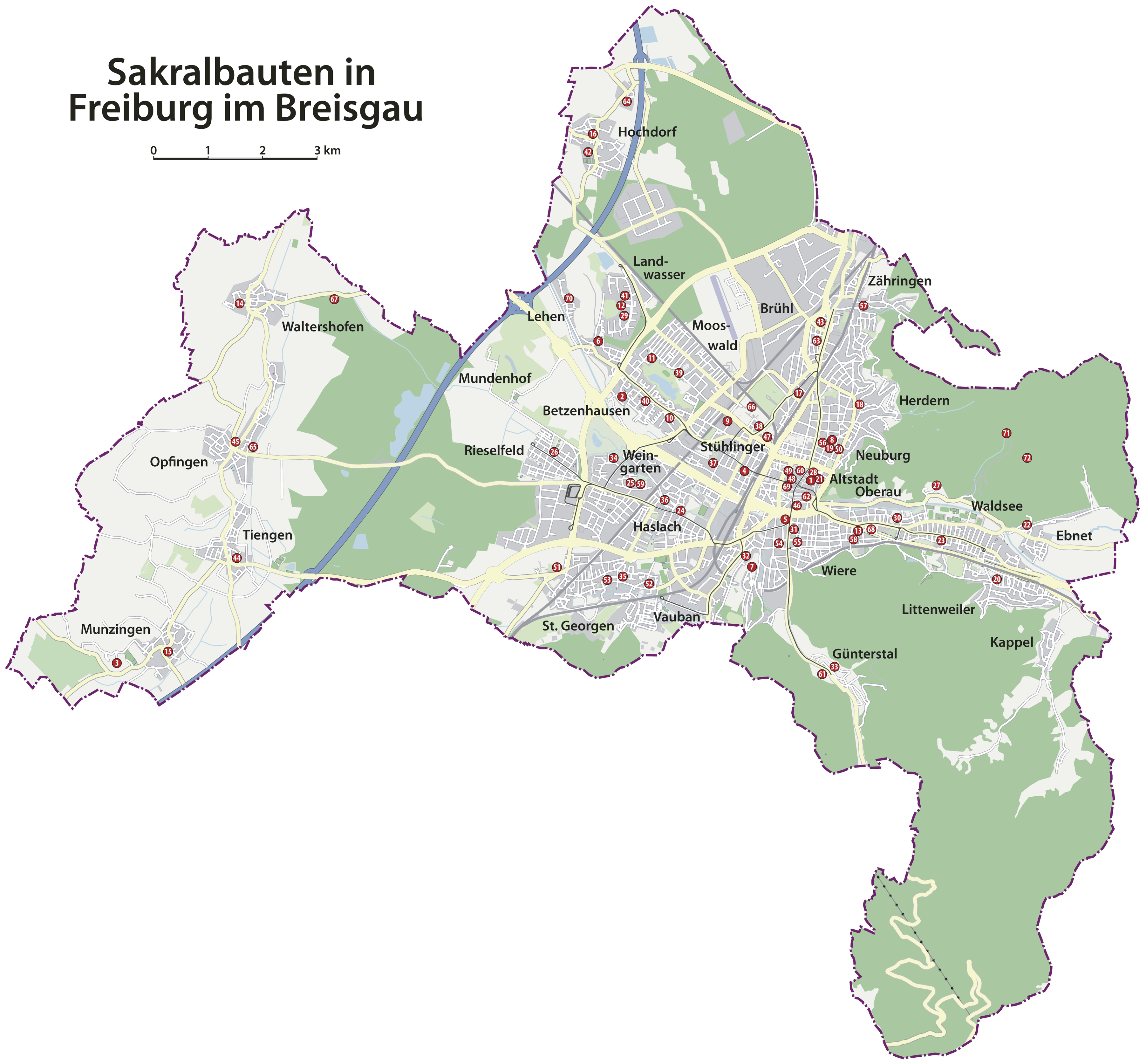 Map of sacred architecture in Freiburg im Breisgau, Germany This map may be incomplete, and may contain errors. Don't rely solely on it for navigation.